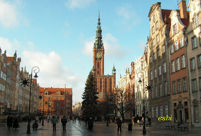 Author: esbi